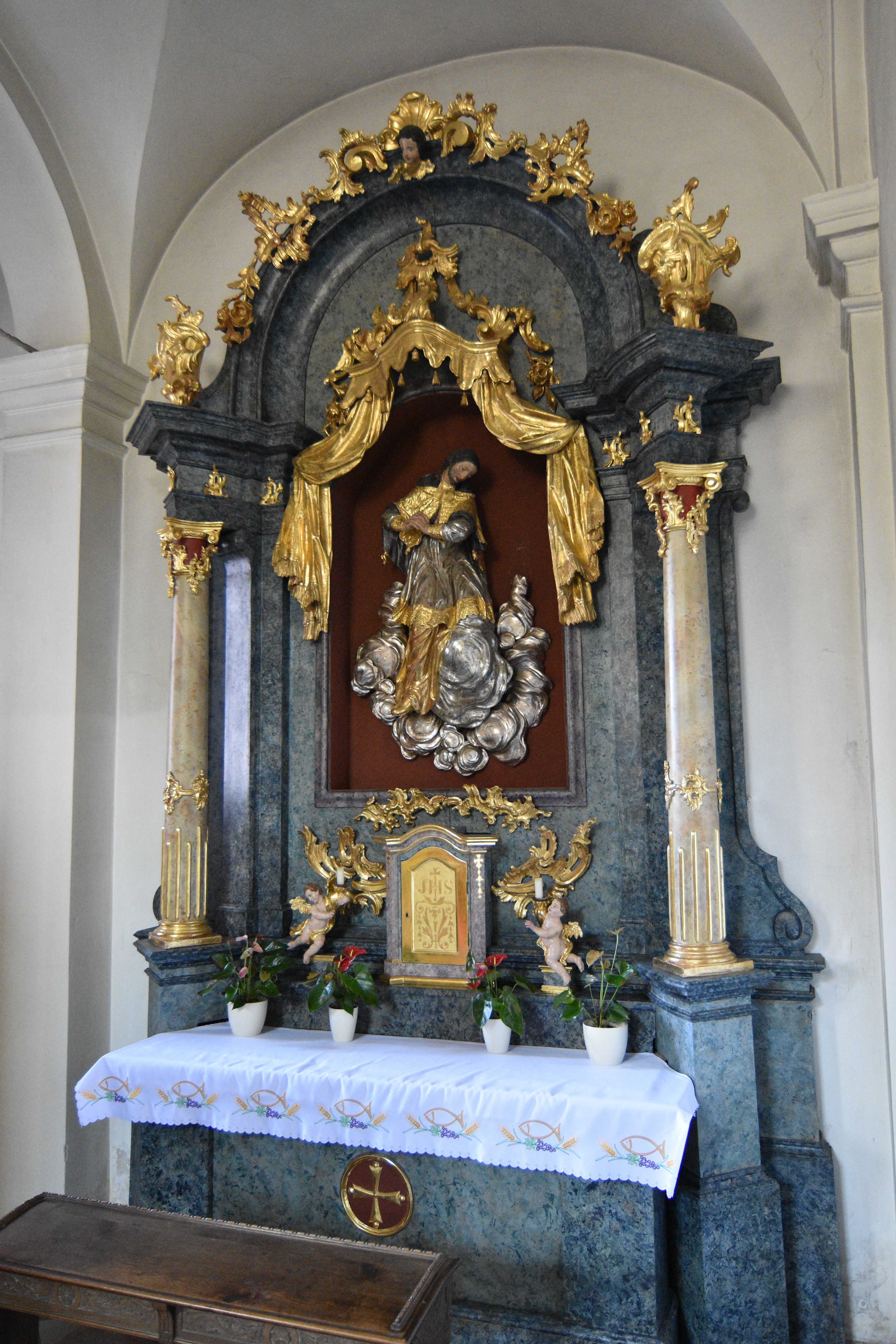 Church Neudau Interior